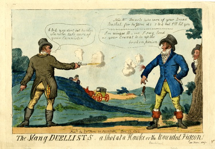 The slang duellist-s a shot at a hawke or the wounded pigeon! The duel between Mr Hawke and Mr (Harry) Mellish. 1807. Caricature by Isaac Cruikshank (1756-1811). Artist dead for over 200 years.